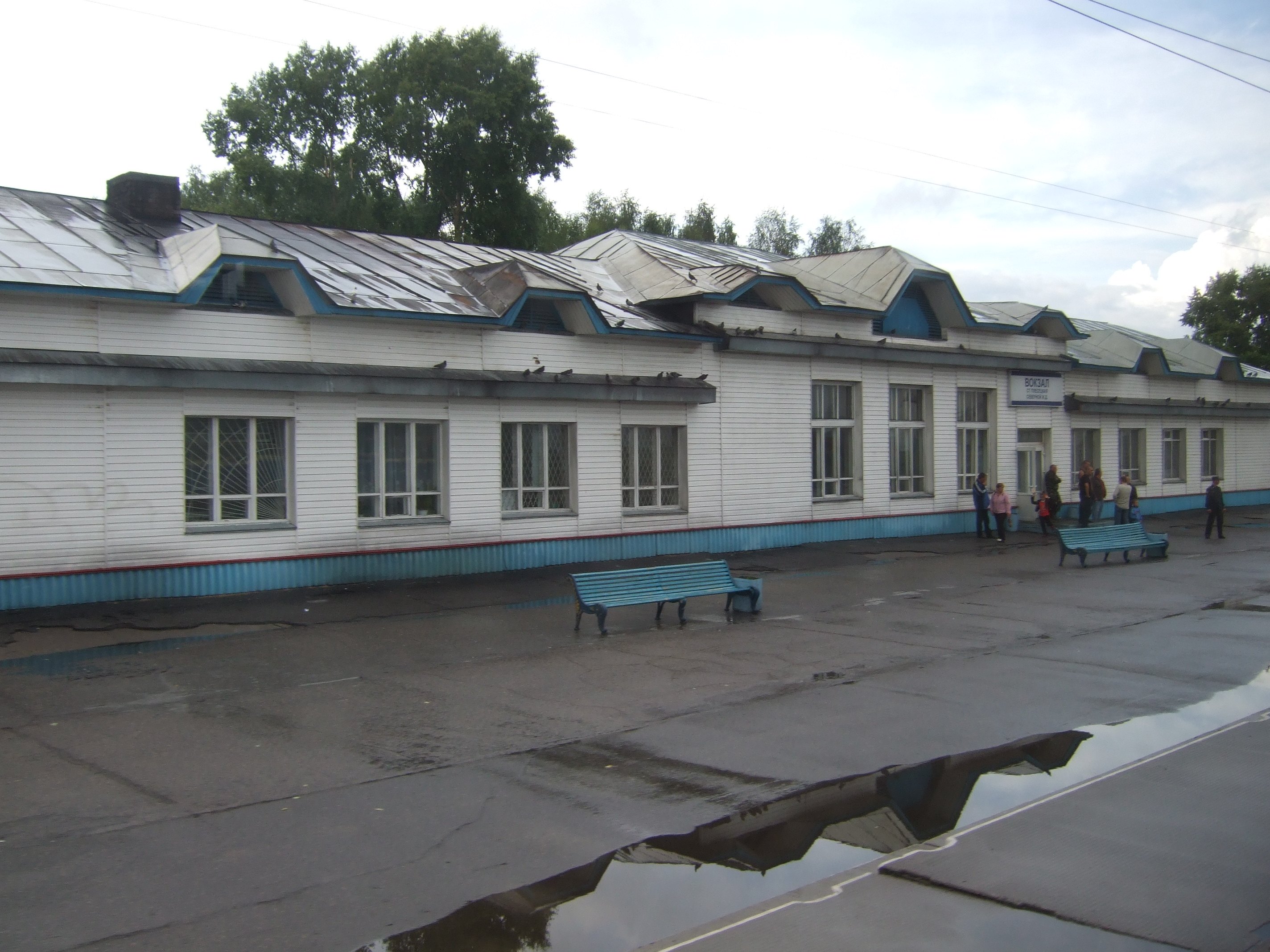 Plesetskaya train station